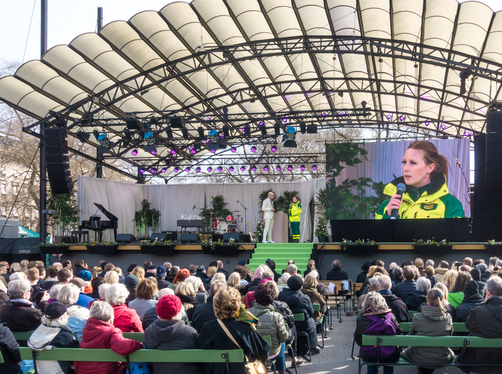 Memorial ceremony in Kungsträdgården on the 1st anniversary of the attack on Drottninggatan.